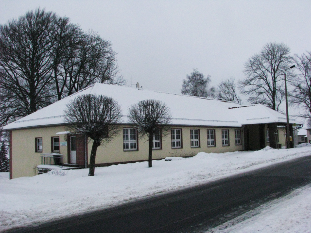 Small community based Medical Centre in Weißenborn-Lüderode, Thuringia